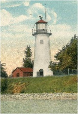 cropped 1919 postcard, Bois Blanc Island Ontario lighthouse